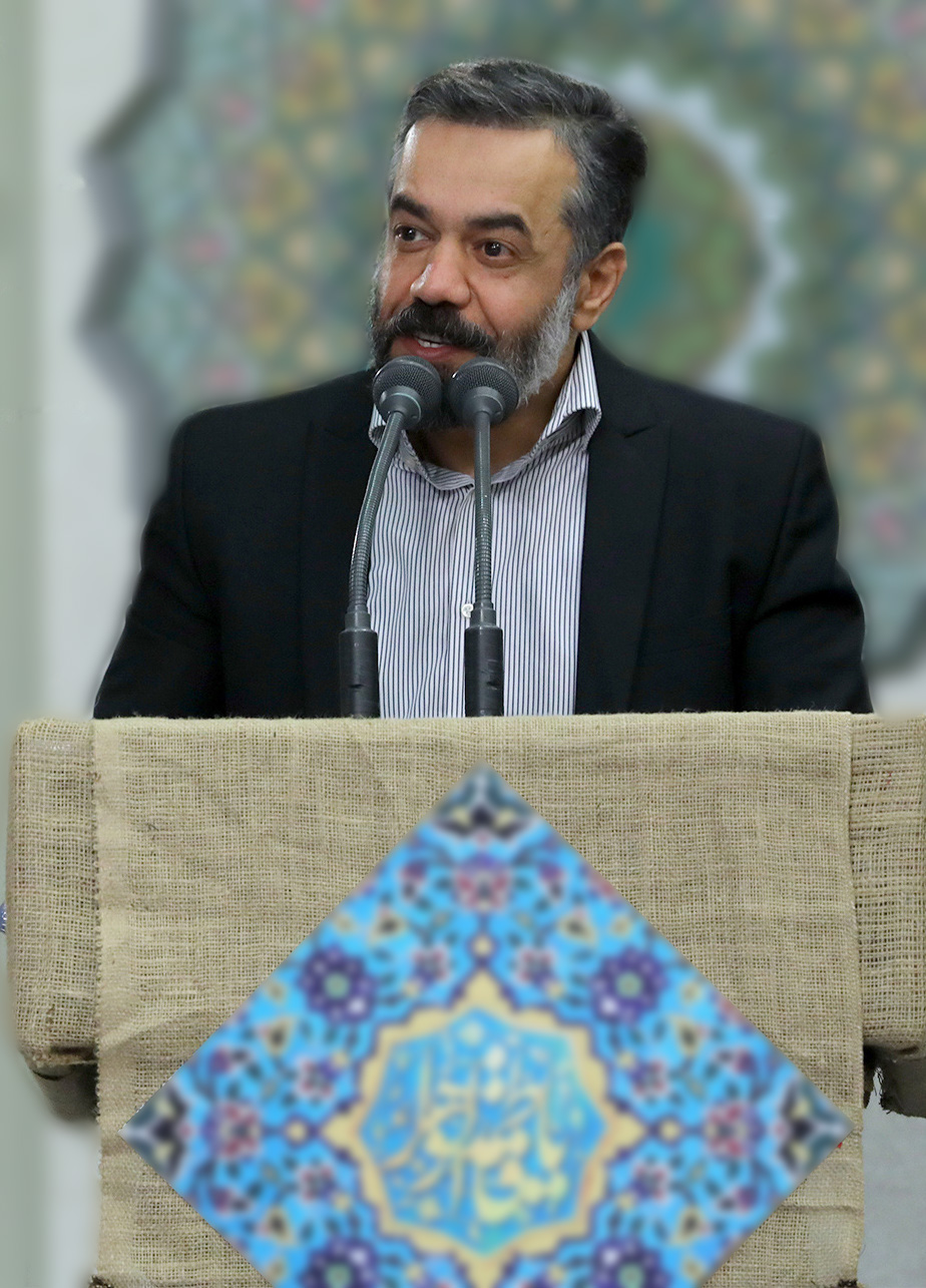 Maddahs meeting Ali Khamenei (13951229 2536010) - Mahmoud Karimi